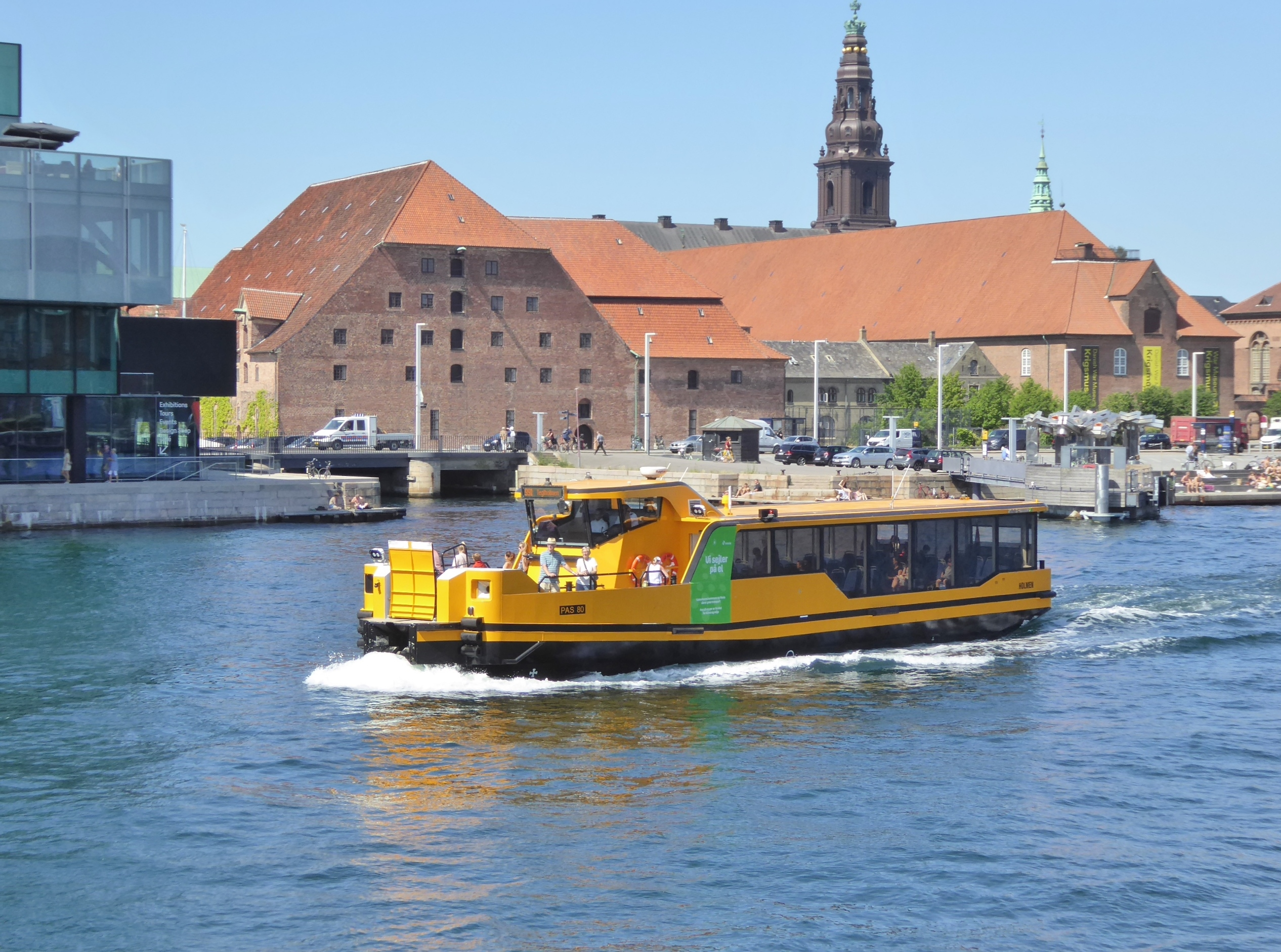 The new electric harbour bus Holmen at Christian IV's Brewhouse in Copenhagen. It had entered service together with four identical ships a few days before.